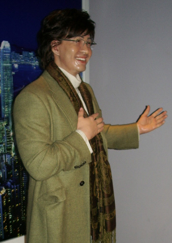 Here is Bae Yong-joon (배용준, 裴勇俊), the South Korean actor and star of "Winter Sonata" who led the way in popularizing the Korean pop culture throughout Asia and beyond. Japanese fans, in particular, are known to worship him by referring to him in an honorific nickname, ヨンさま (Yon-sama, "yon" being the closest Japanese sound to "Yong").